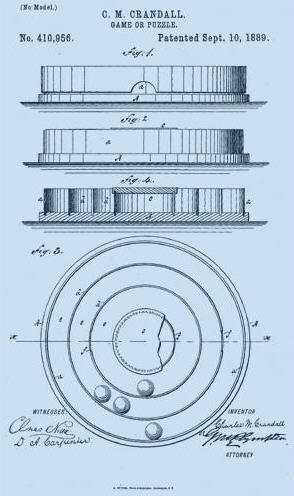 Pig in Clover game by Charles Martin Crandall patent application filed 4 Feb 1889 granted 10 Sep 1889